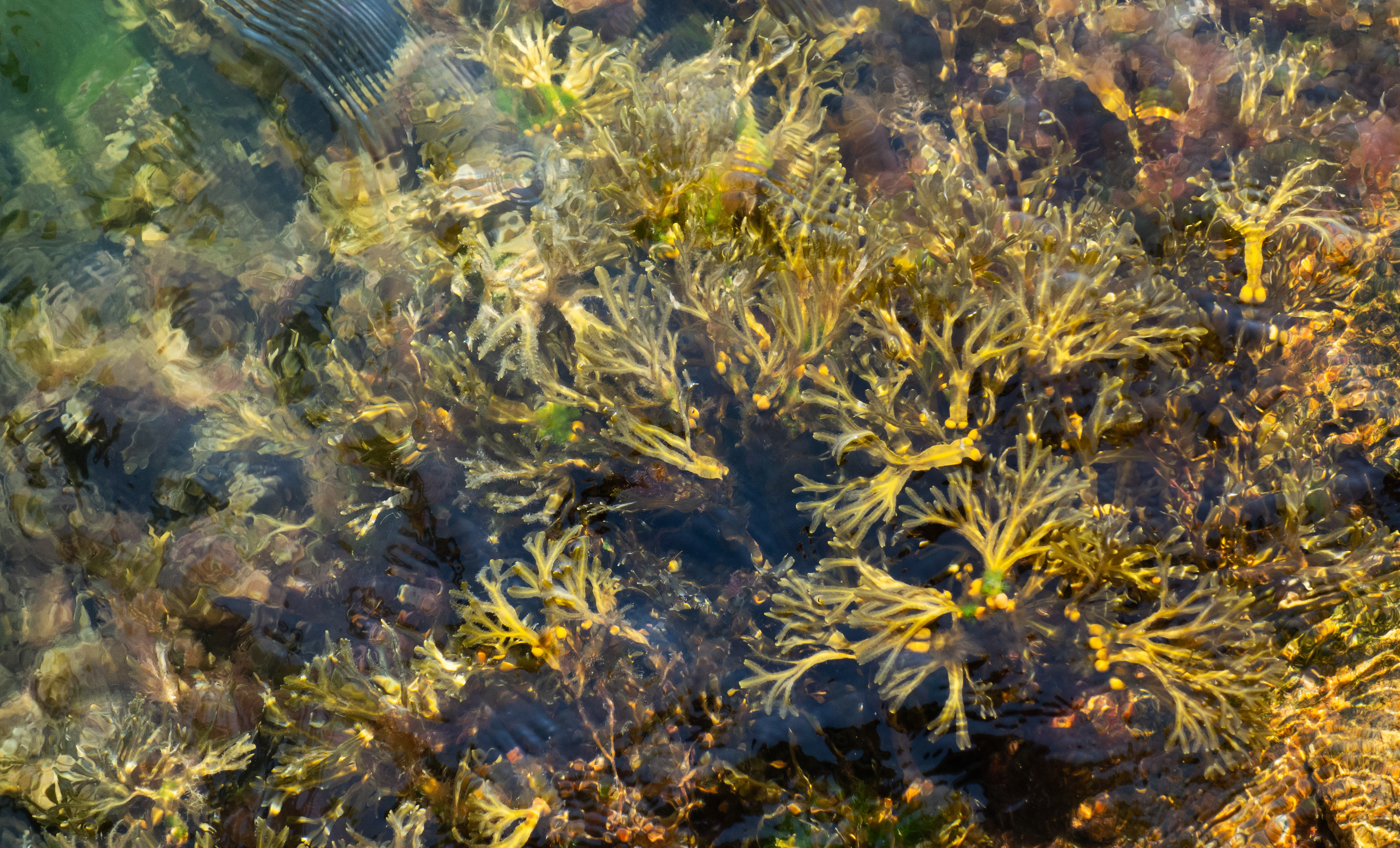 Bladder wrack (Fucus vesiculosus) and some red hornweed (Ceramium virgatum) in Sämstad Harbor, Lysekil Municipality, Sweden. Photo taken from a jetty at the south end of the harbor. The photo was taken from the far end of this jetty.